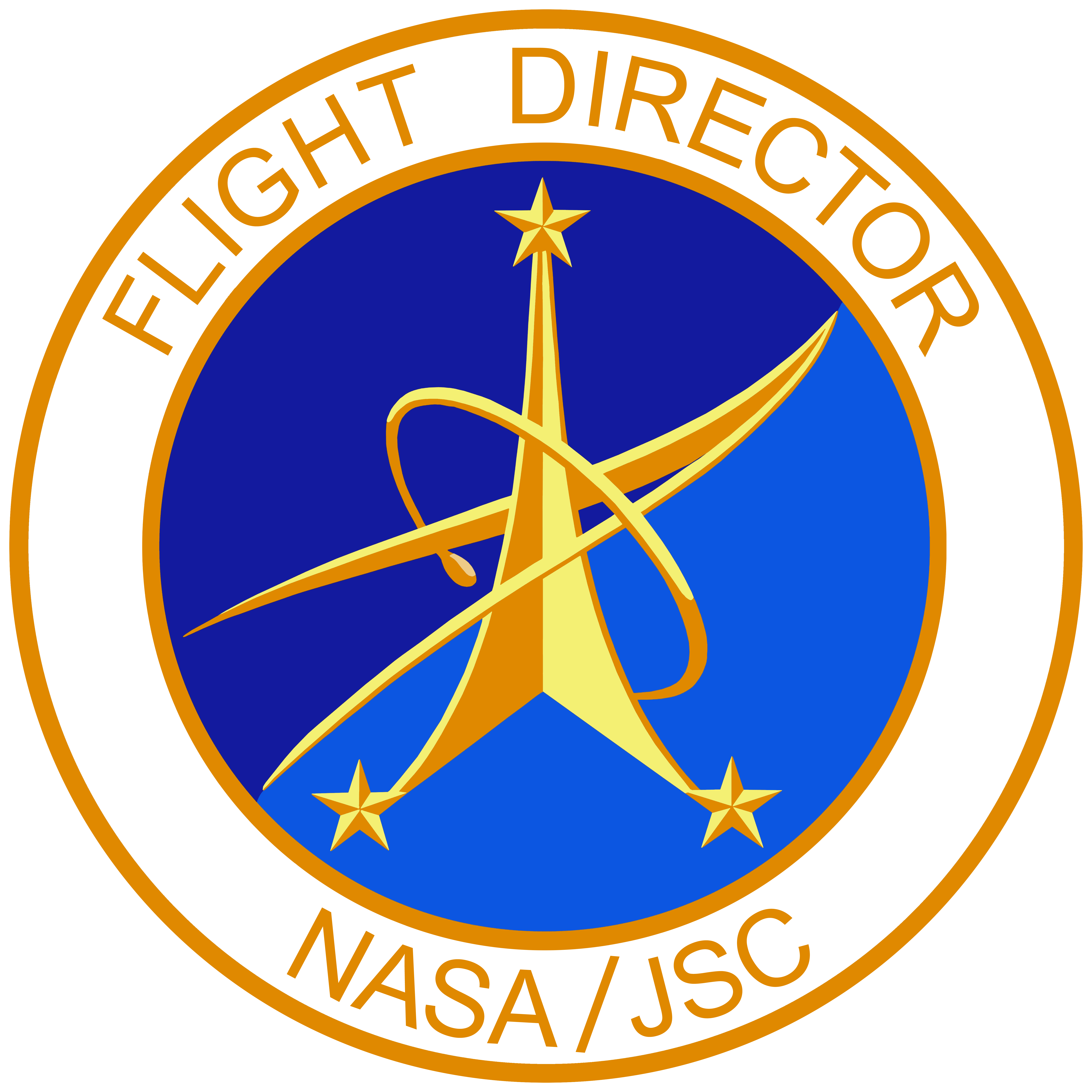 The insignia is intended to represent the activities of past, present, and future NASA Flight Directors in their role of providing leadership and direction for conducting Manned Space Flight. The bottom two stars on the insignia represent the involvement of the Flight Crews and the Ground Support Elements, respectively. The arrow pointing outward into space represents the Flight Director in pulling the elements together to support and respond to the needs of the Program, which is represented by the highest star. This star represents all the Manned Programs: Mercury, Gemini, Apollo, ASTP, Skylab, Space Transportation System (STS), and Space Station. The "orbit" signifies the role of the Flight Director in the on-orbit operations relative to the Programs. The "solid wing" symbol on the emblem denotes the Flight Director role in aerodynamic flight activities: launch and entry. The orbit and wing symbols were borrowed from the original NASA seal to add a sense of tradition to the emblem and to include all activities of space flight. The insignia in the form of a pin is intended to be worn by those Flight Directors who have previously flown a mission in the MCC. New Flight Directors will have to "earn their wings" before the pin can be worn.